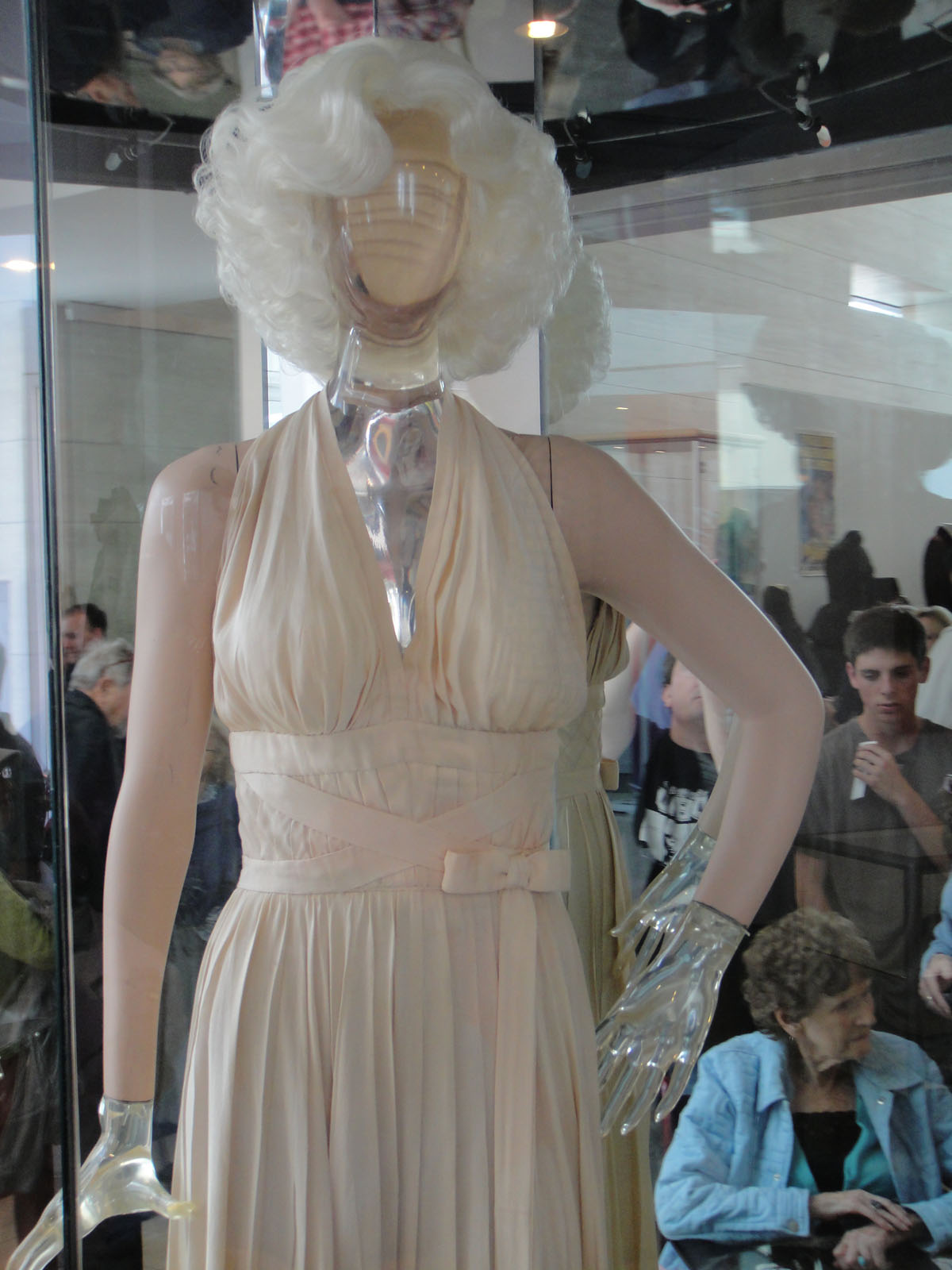 Marilyn Monroe ivory pleated dress from the film The Seven Year Itch at the Debbie Reynolds Auction Breaks Up Historic Hollywood Collection (The Paley Center for Media in Beverly Hills, Los Angeles, CA, USA).